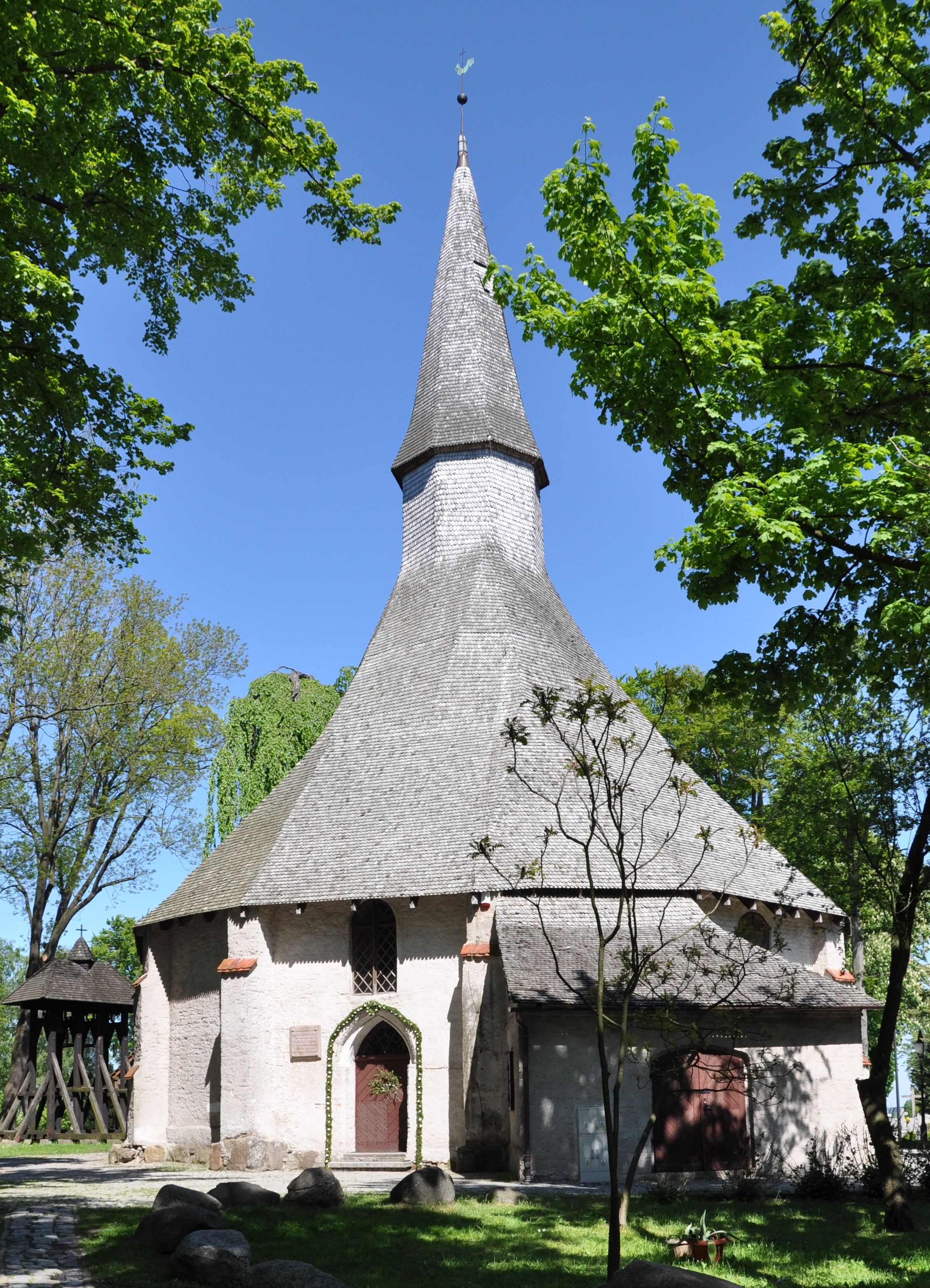 St. Gertrude Roman Catholic Church in Darłowo, Poland